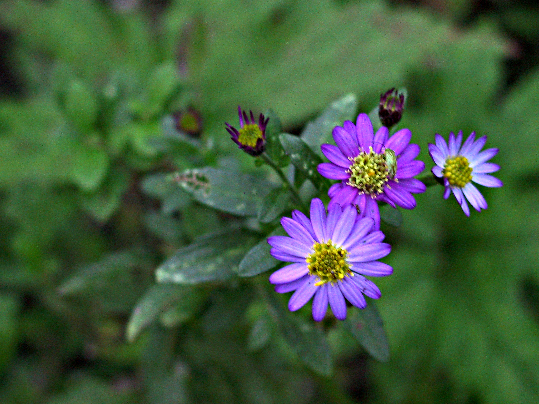 Aster ageratoides: out of focus...